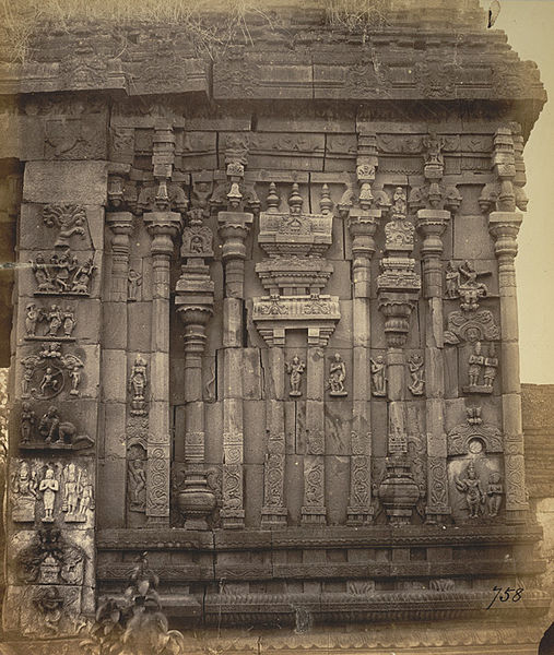 Close view of carving on inner face of gopura of the Narasimha Temple, Ahobilam